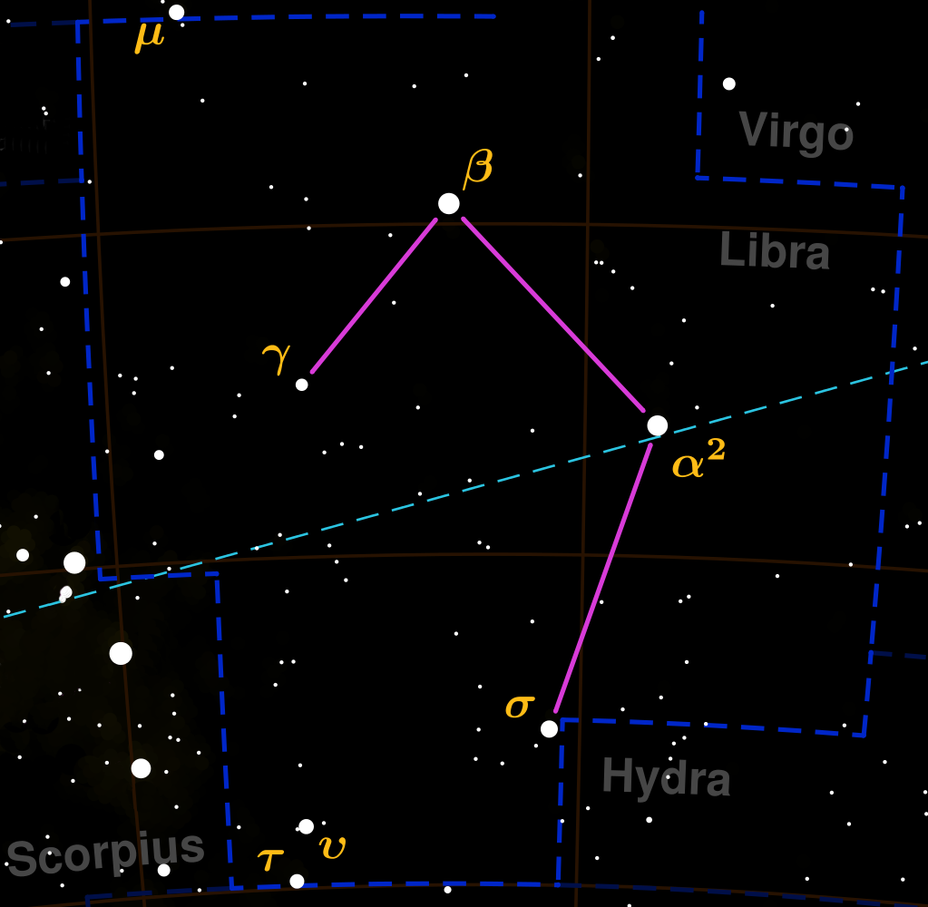 The constellation Libra (The Scales) and surrounding night sky.